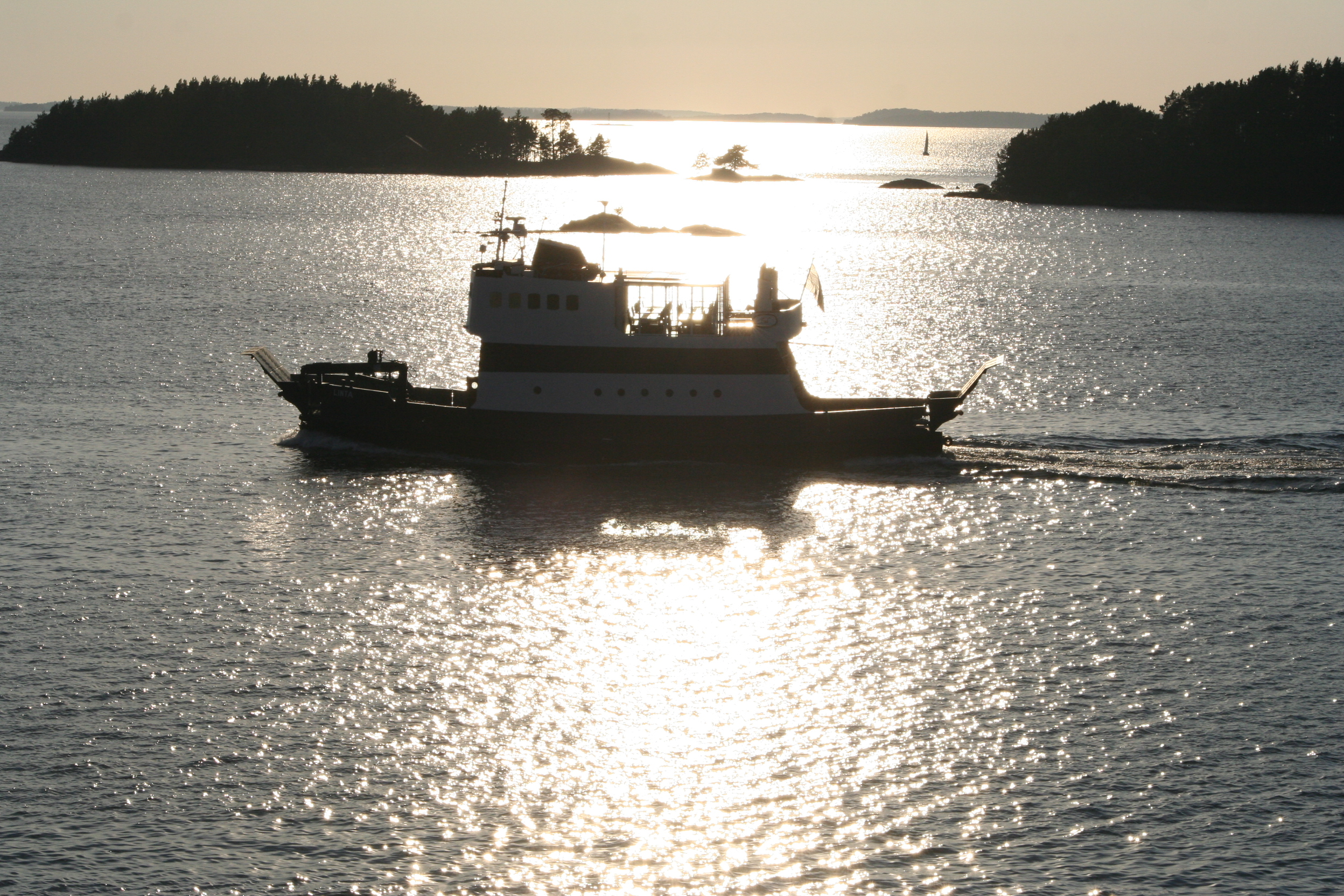 M/S Linta